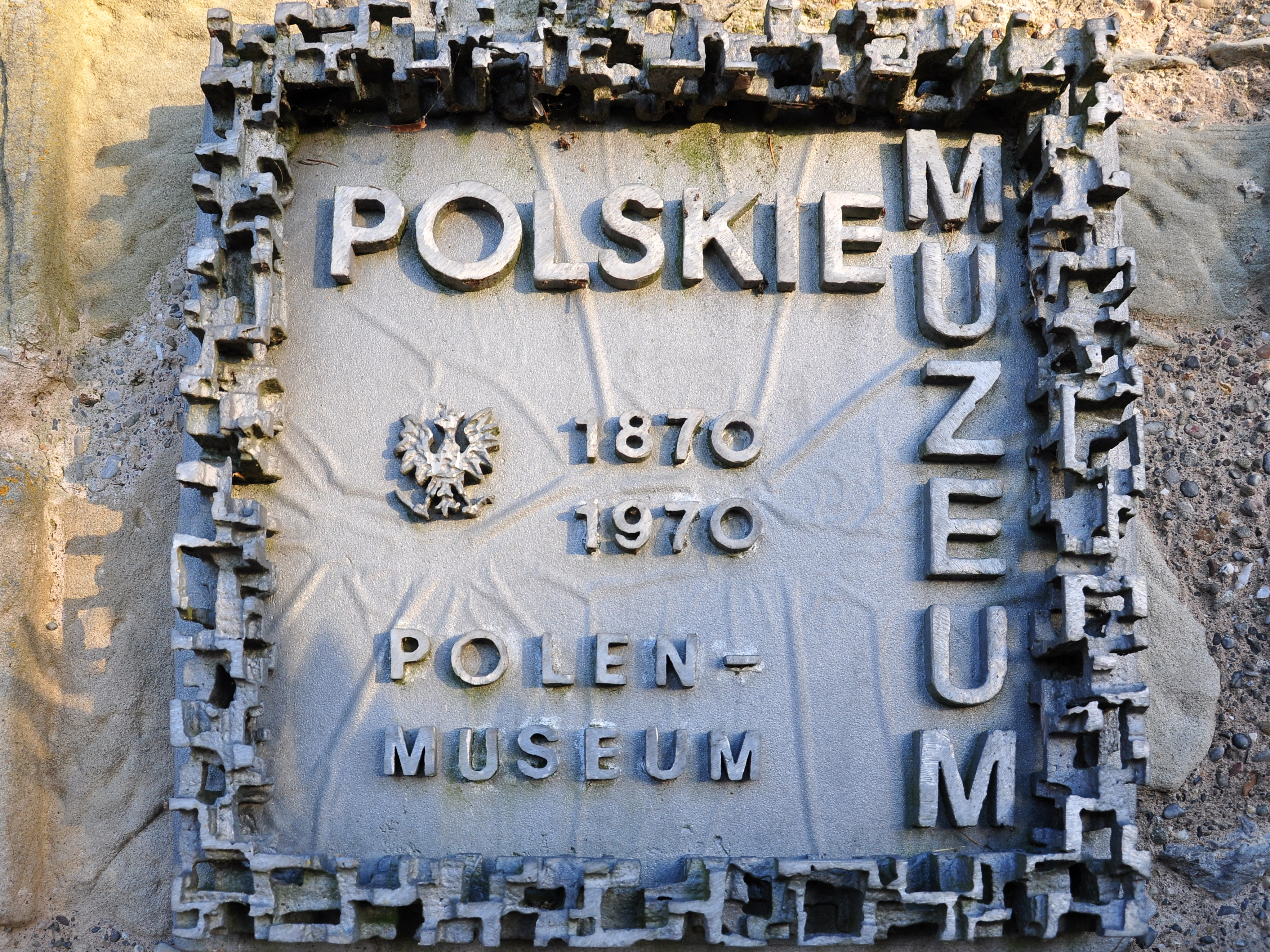 Plaque of the library of the Polenmuseum (Polish Museum) in Rapperswil (Switzerland), situated in the Rapperswil castle